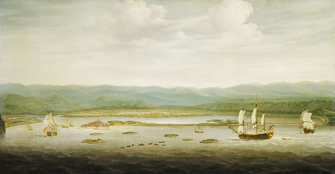 View of Port Royal Jamaica. Richard Paton (1717-91), c.1758. BHC1841